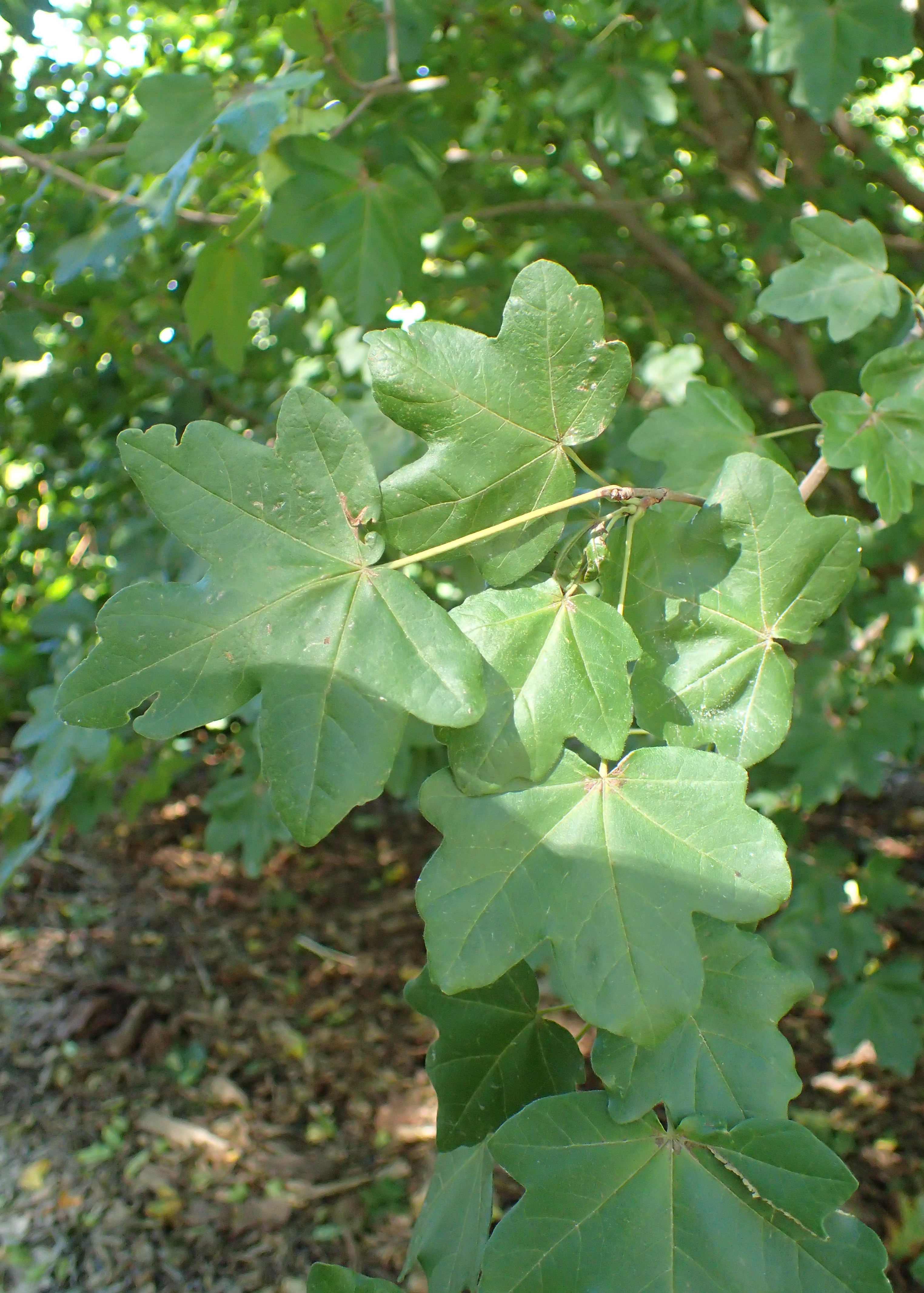 Acer pilosum var. stenolobum in Olbrich Botanical Gardens, Madison